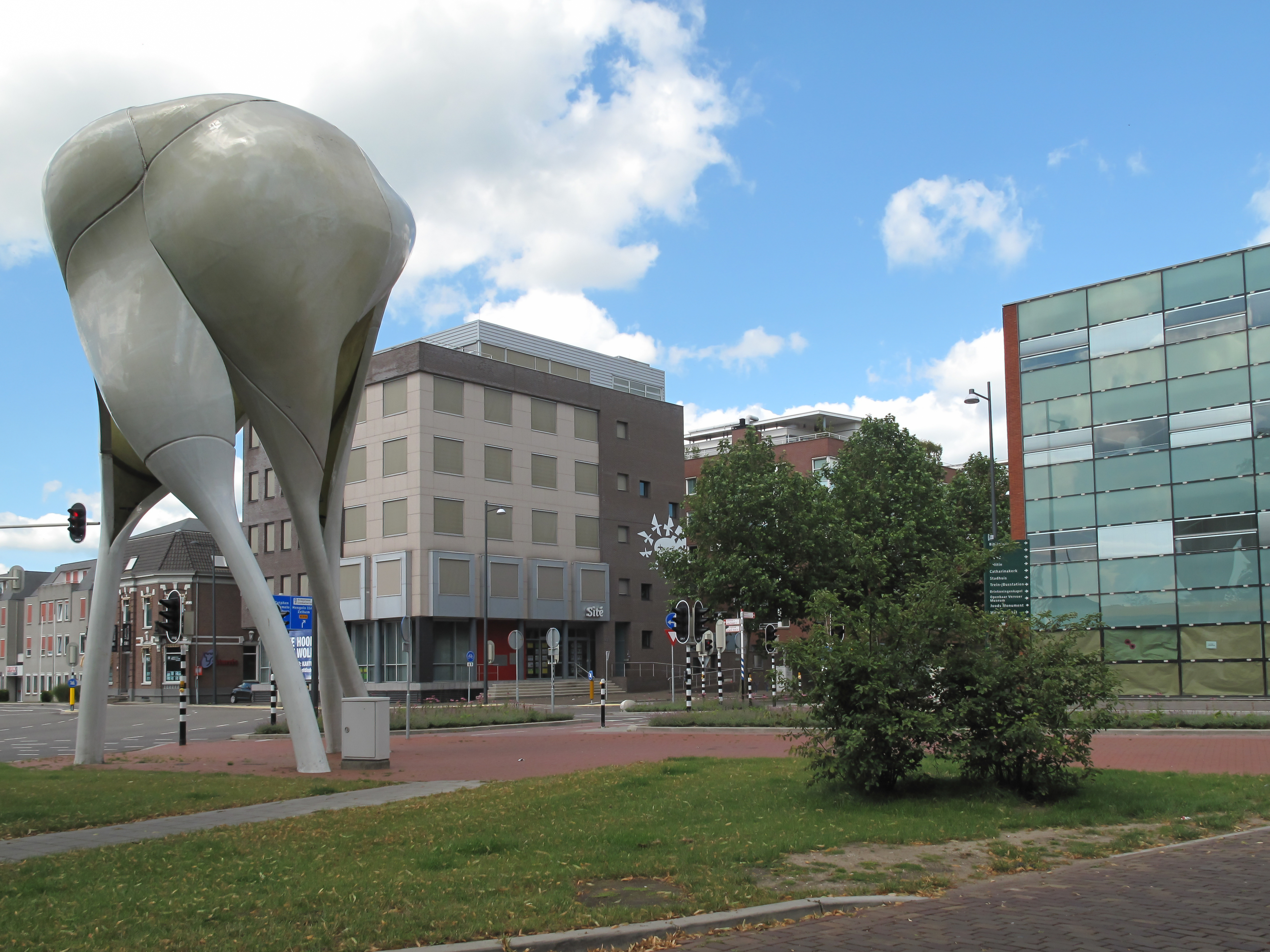 Doetinchem, modern street art: de D-toren